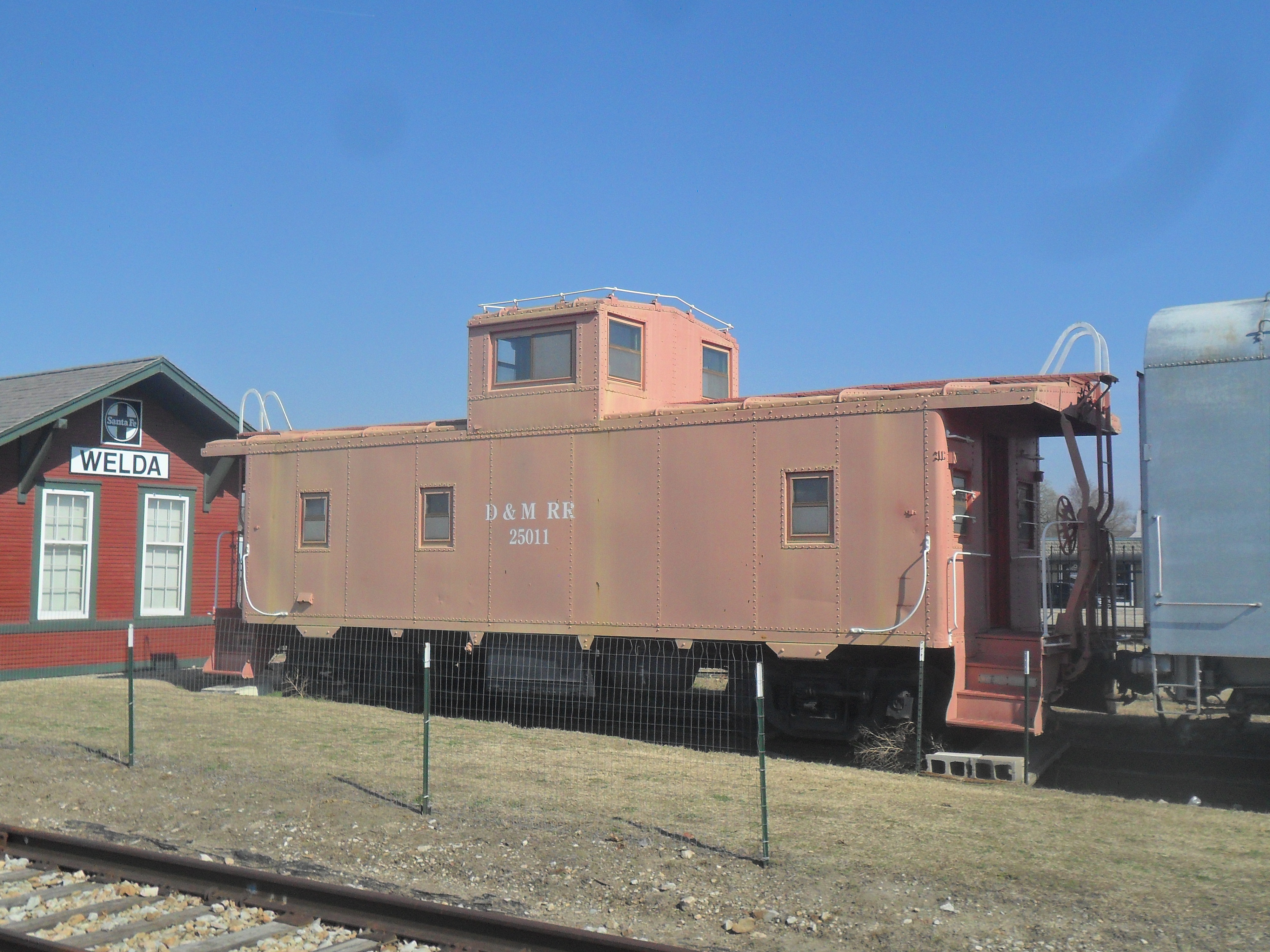 Caboose 25011 from the Detroit & Mackinac Railway, now on display at the Great Overland Station in Topeka, Kansas.